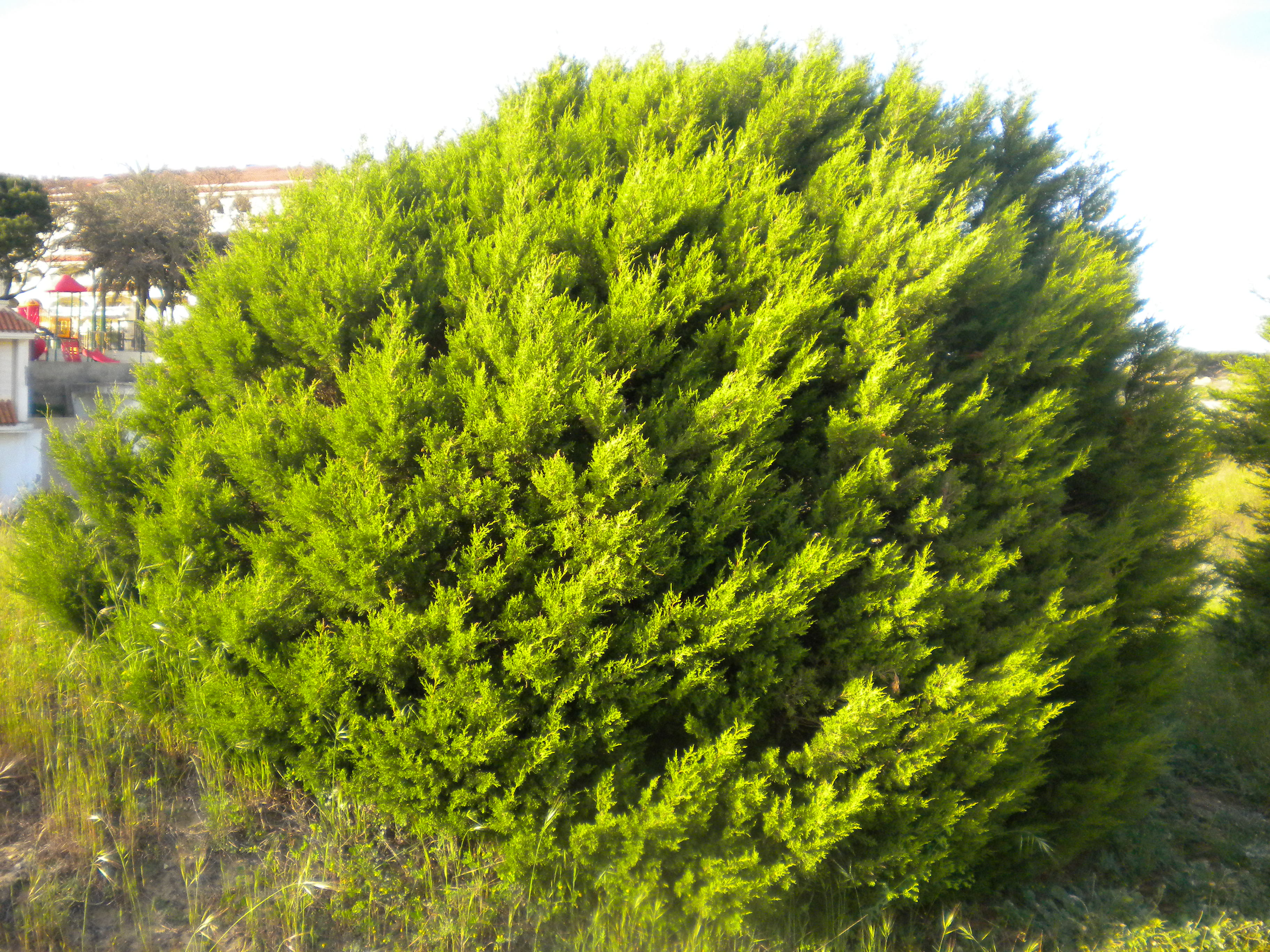 Juniperus phoenicea subsp. turbinata in Matalascañas (Huelva, Spain).